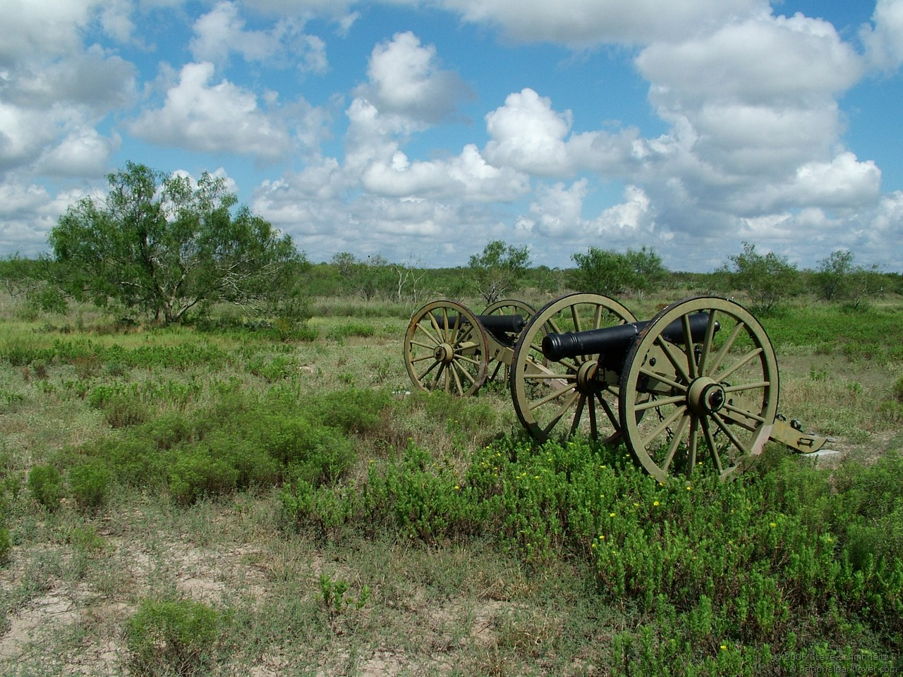 This site preserves the first major battleground in the Mexican-American War.